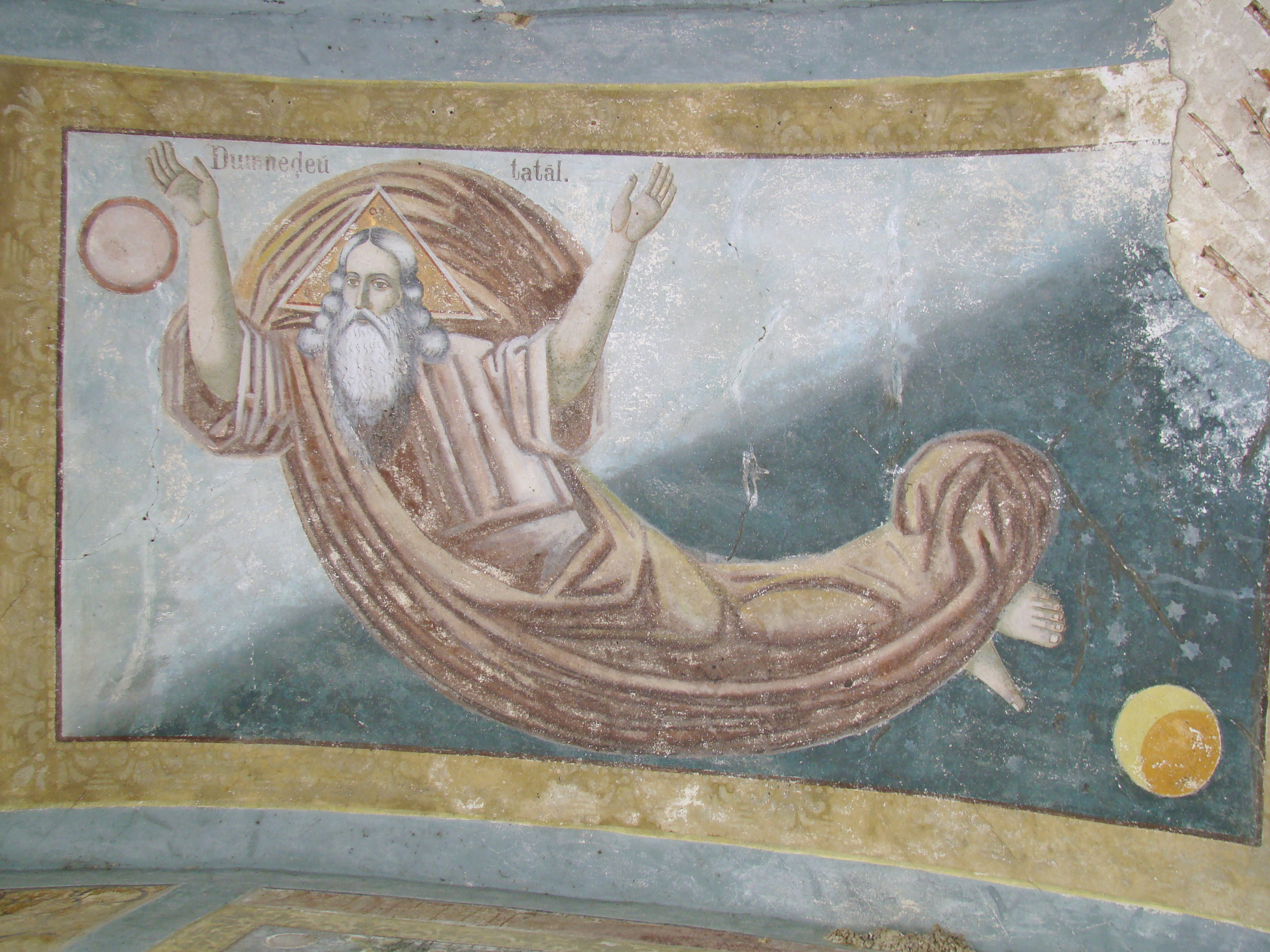 Wooden church in Cărbunești-Sat, Gorj county, Romania